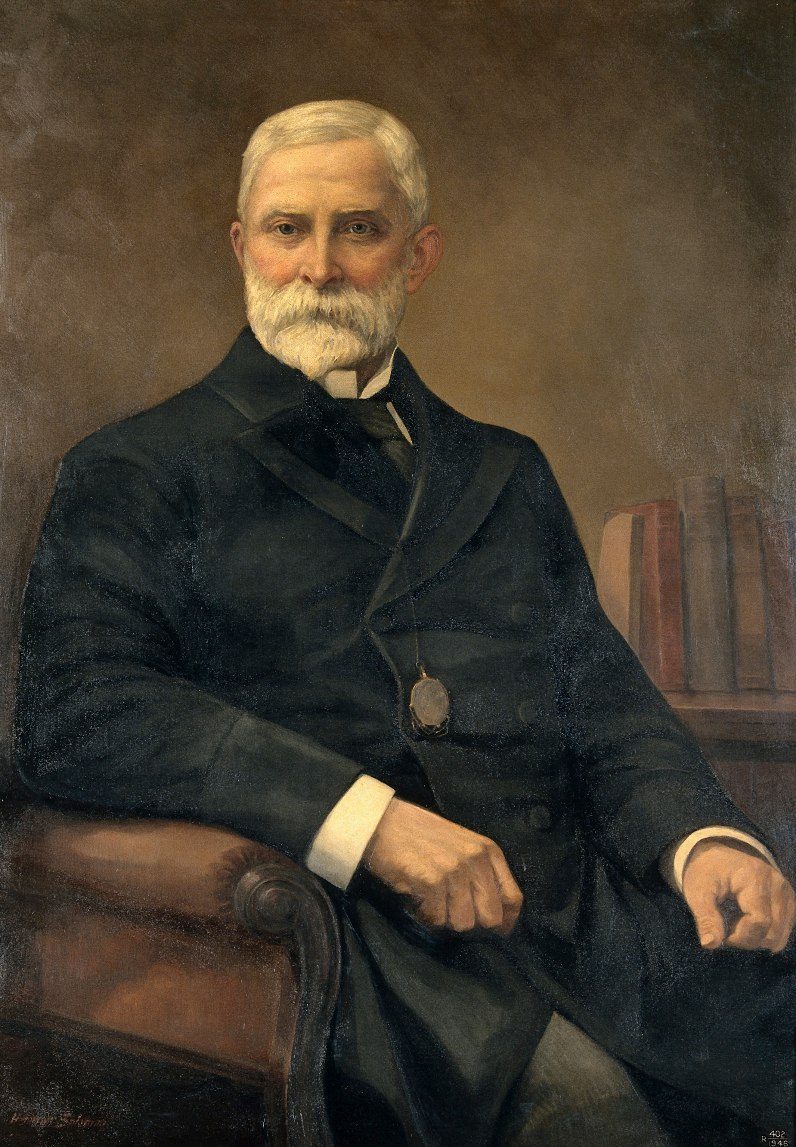 Sir Thomas Lauder Brunton, Bt. (1844-1916), writer on pharmacology and therapeutics. Oil painting by Harry Herman Salomon after a photograph. Canvas 107 x 76.5 cm.